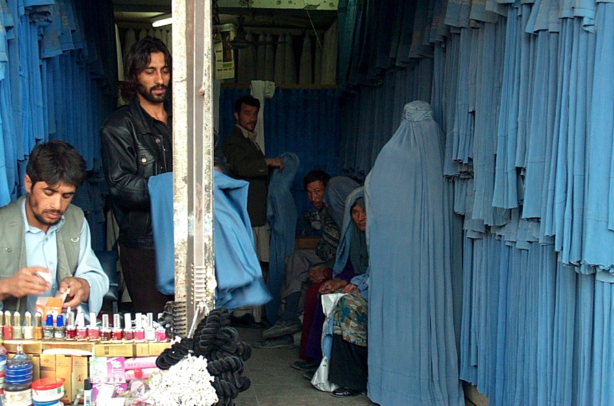 Chadari (Afghan burqa) shop on Kabul market